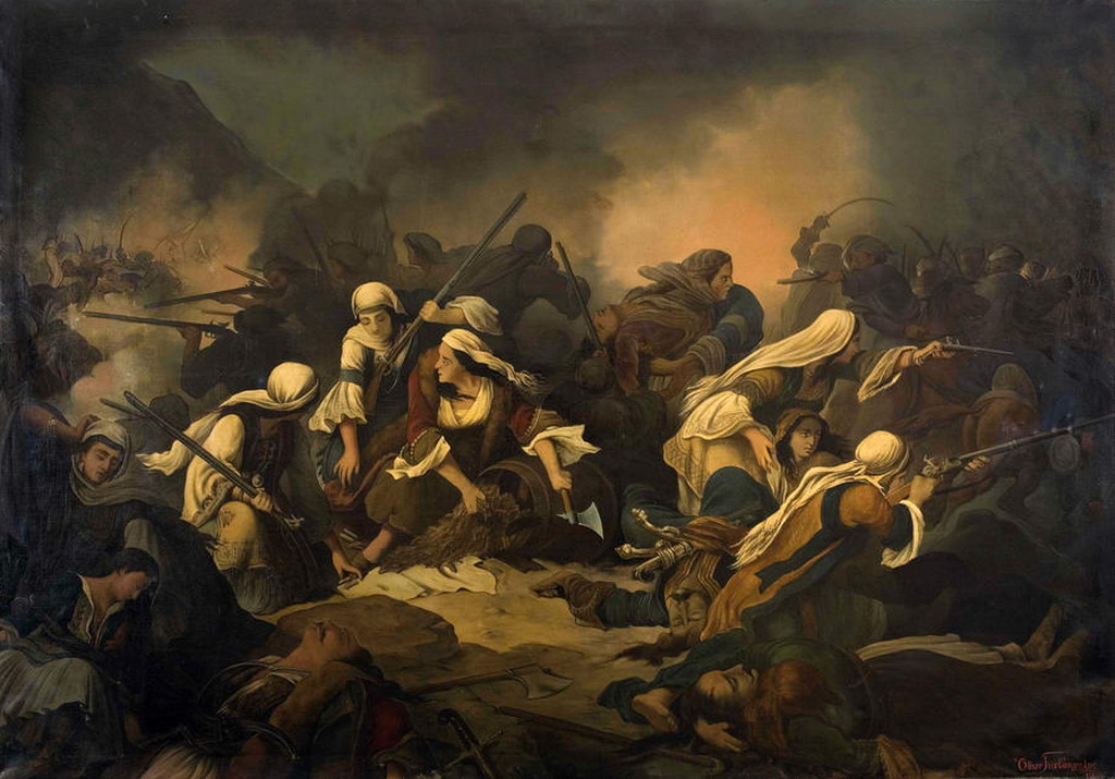 The Heroines of Greece